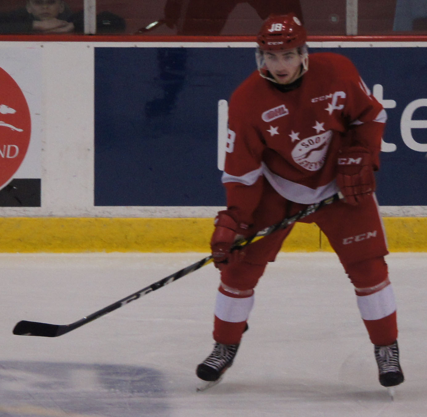 Blake Speers playing for the Sault Ste. Marie Greyhounds in Sault Ste. Marie Ontario, March 20, 2016